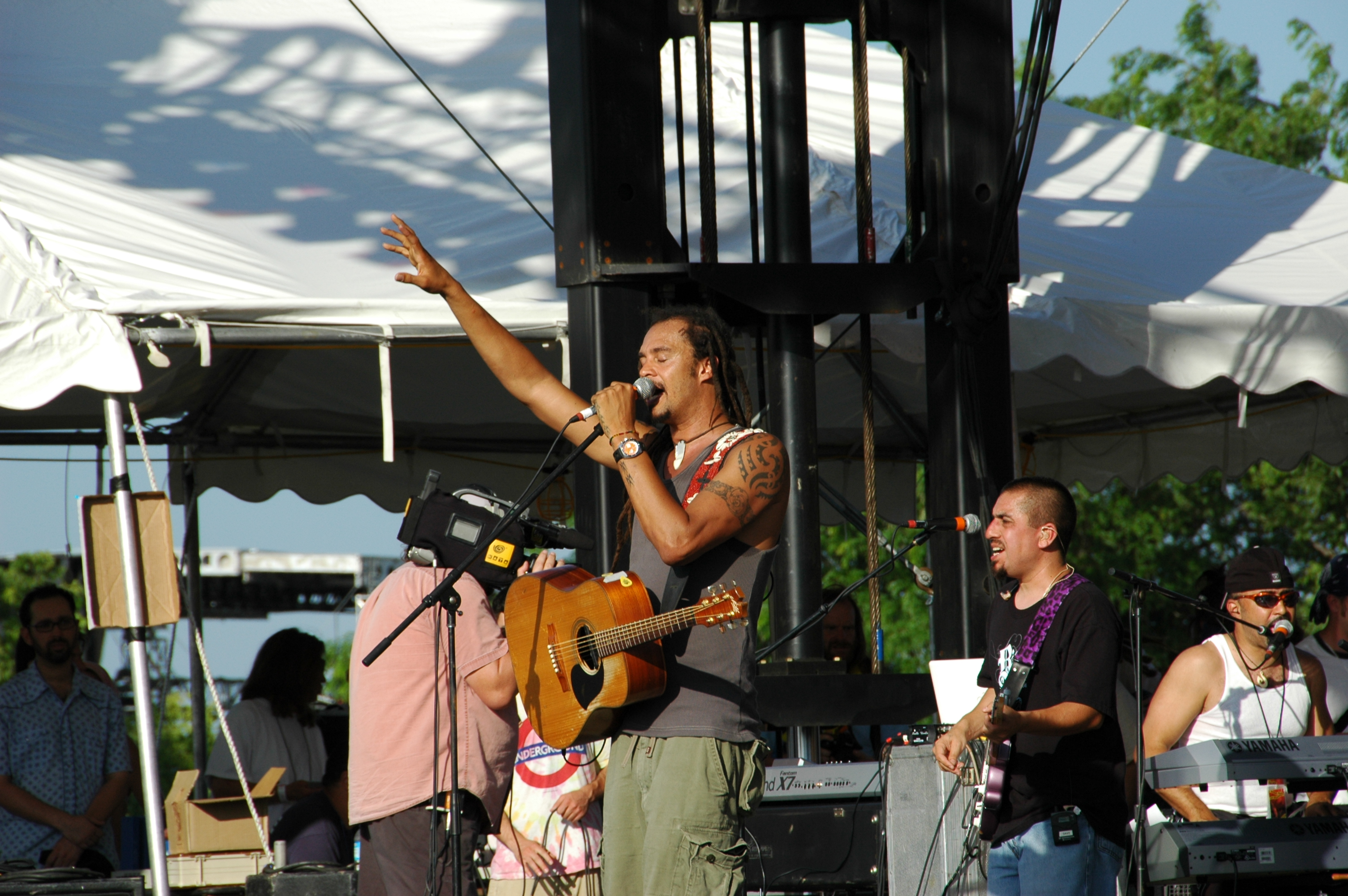 Michael Franti and Spearhead performing at Wakarusa 2006.